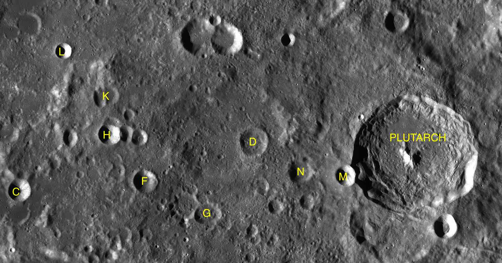 Part of the chart LAC-45 used for the presentation